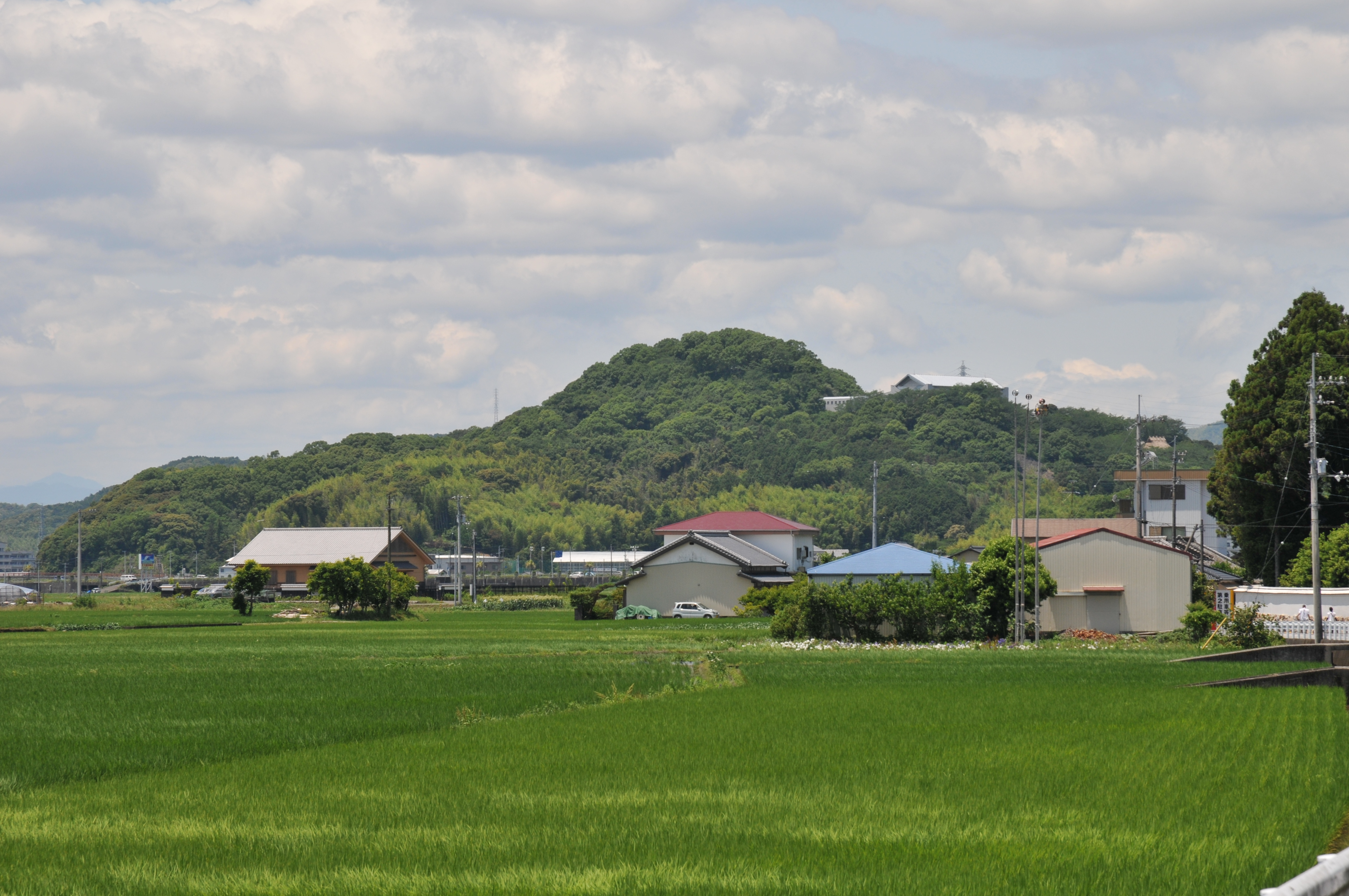 view of Okō-jō hill